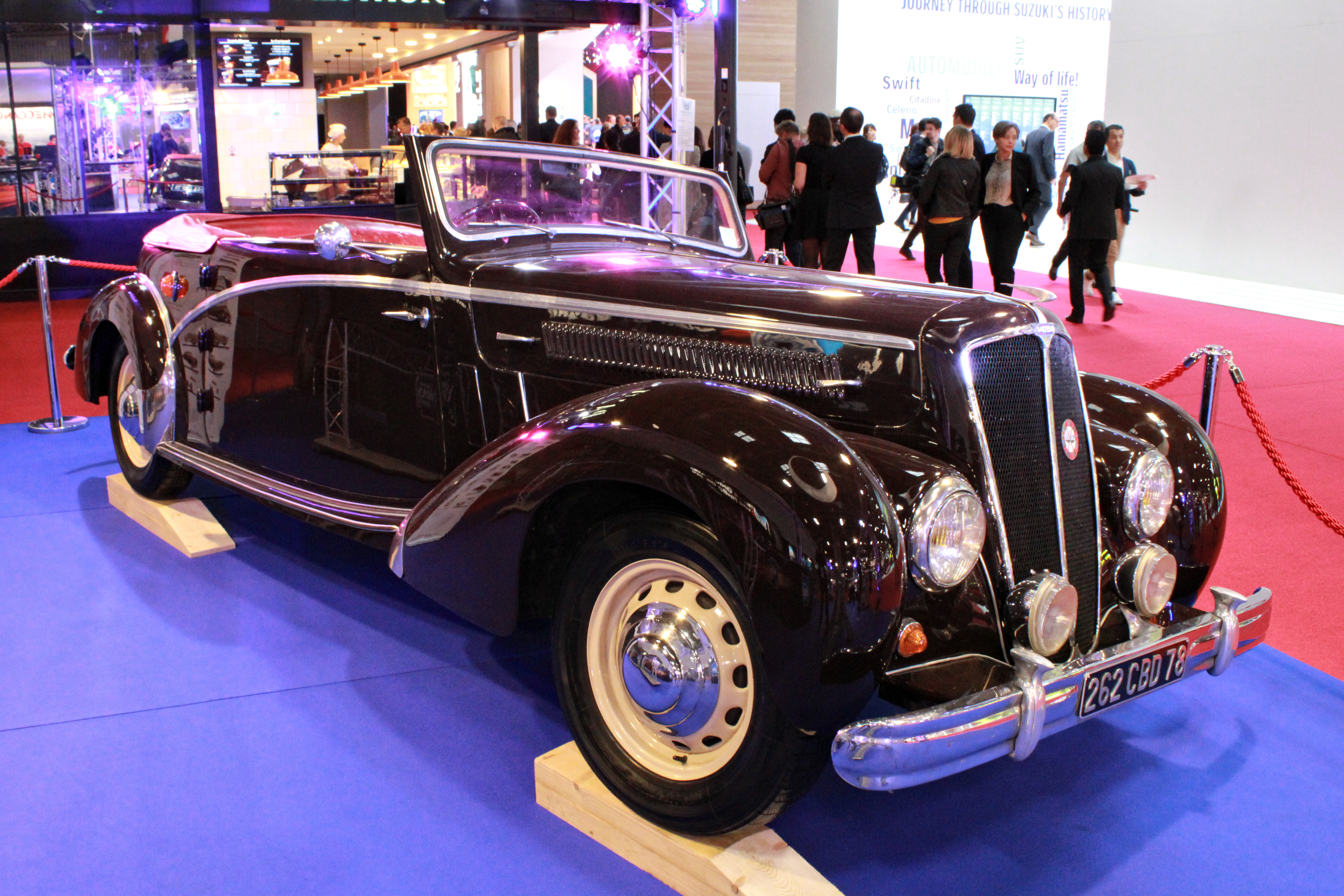 Salmson S4 E Cabriolet (1949) at Paris Motor Show 2018